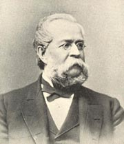 William Thomas Minor (October 3, 1815 - October 13, 1889) was an American judge and politician from Connecticut. He served as the 39th Governor of Connecticut, Consul-General to Havana, Cuba and judge on the Connecticut Superior Court.